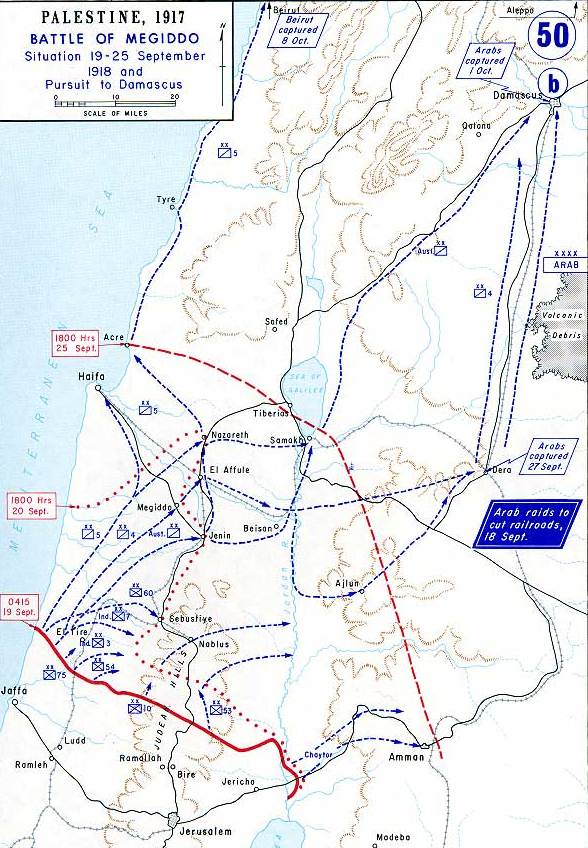 Map showing Allenby's final attack at Megiddo, September 1918.